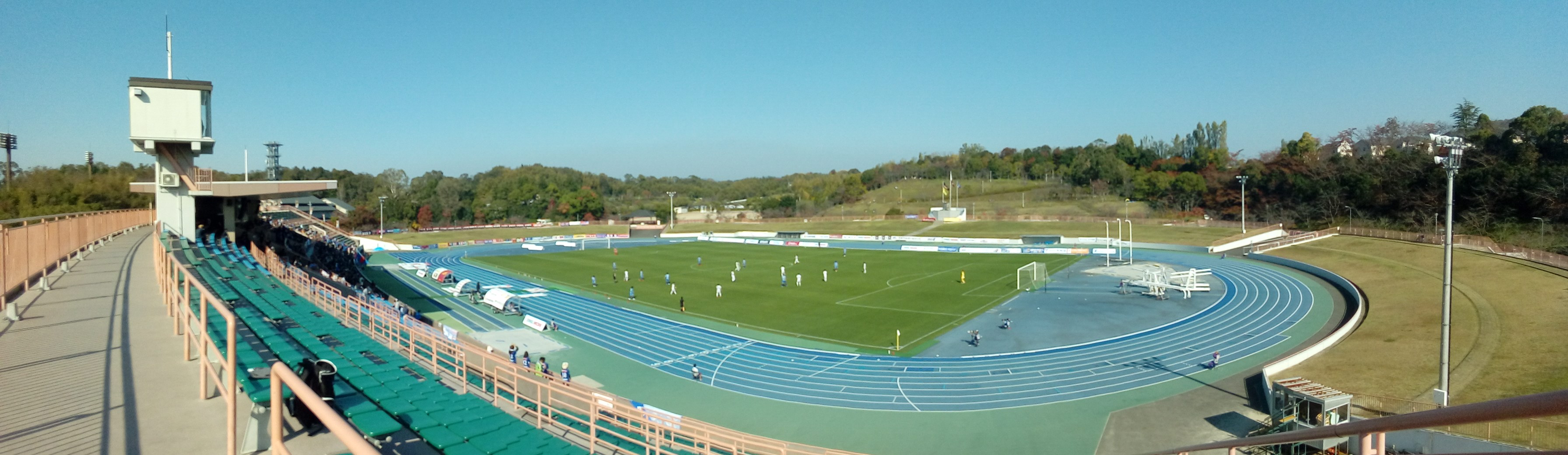 The panoramic photograph of Kounoike stadium (Naraden Field), Japan Football League, Nara Club vs Aomori, 11 November, 2018